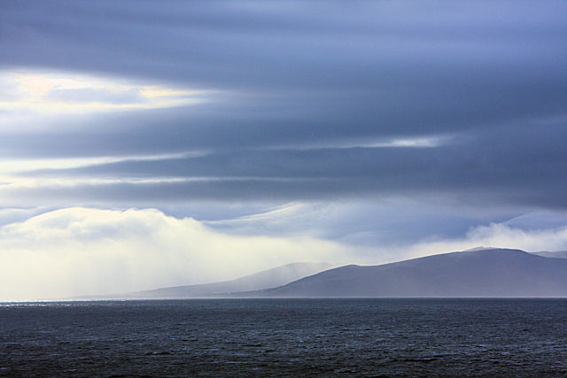 Shannon Estuary and Kerry coast Looking across the Shannon Estuary from Loop Head, County Clare.